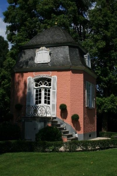 Cultural heritage monument No. 19 in Nettetal